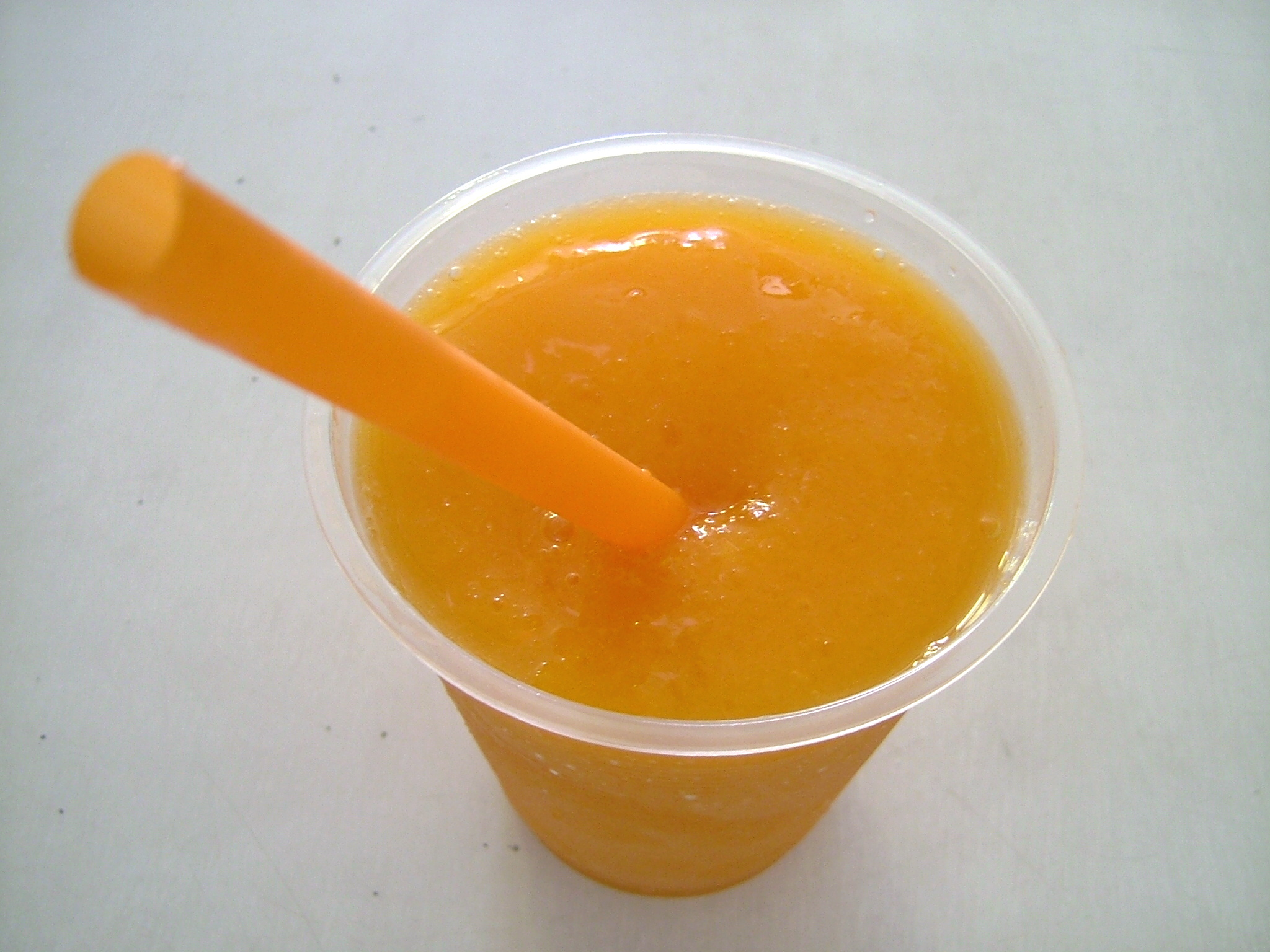 Mango juice, Cirebon, West Java, Indonesia